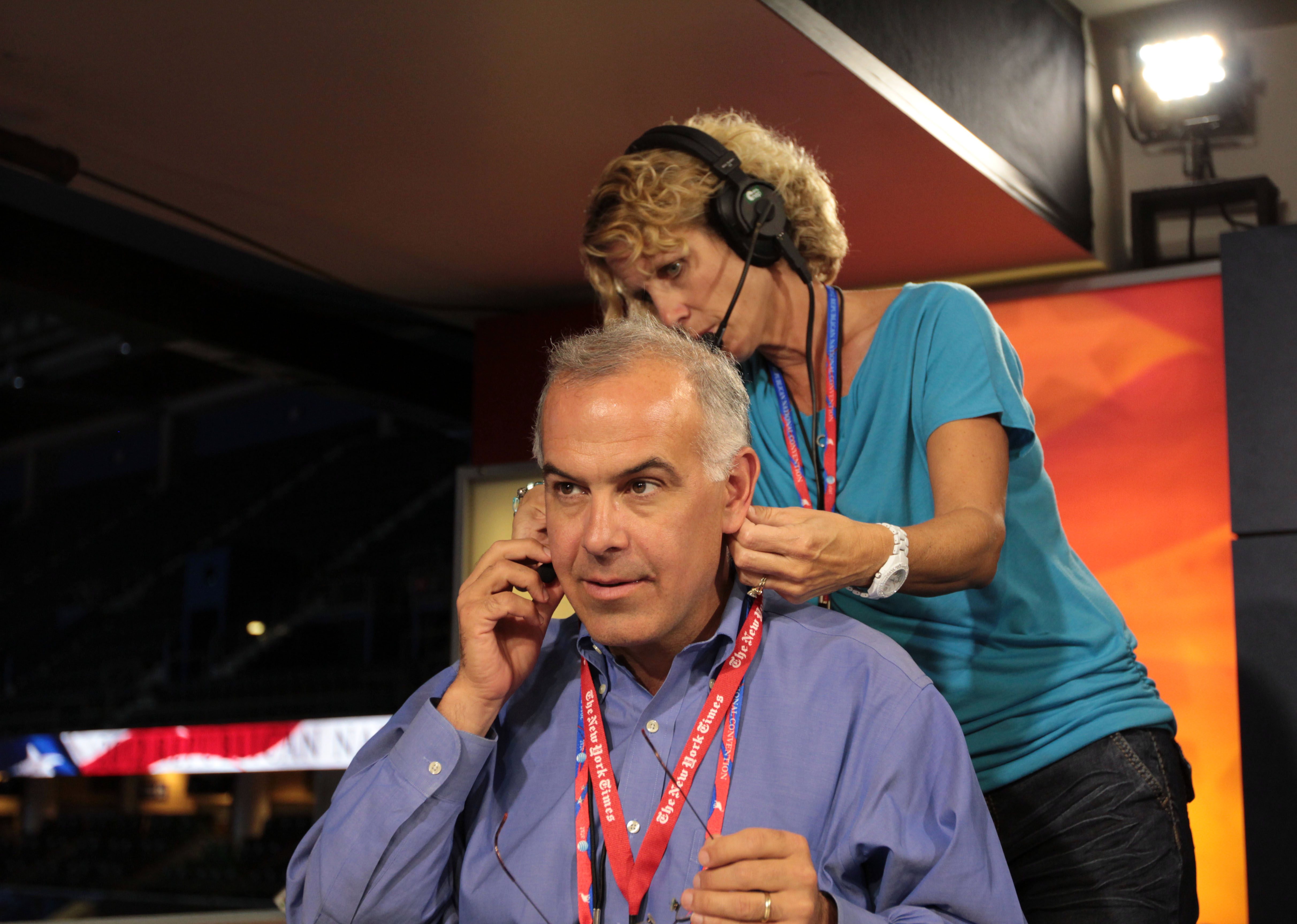 David Brooks and PBS staff at rehearsal for PBS Newshour in 2012.